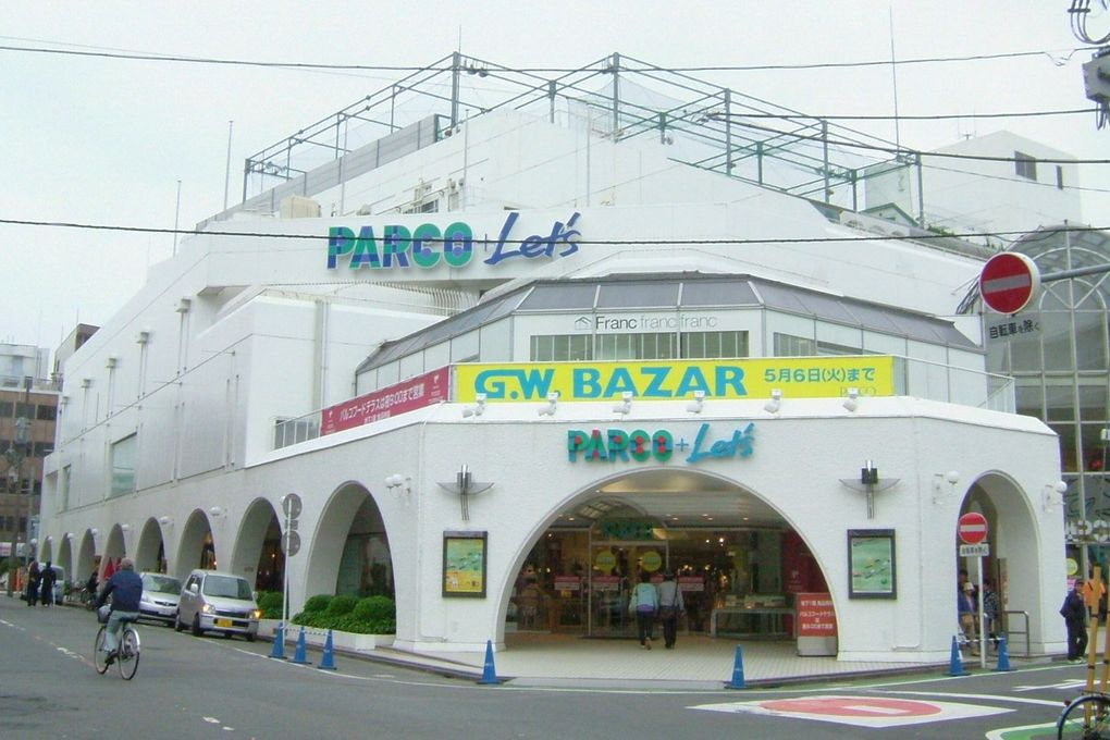 Shin-Tokorozawa Parco+Let's